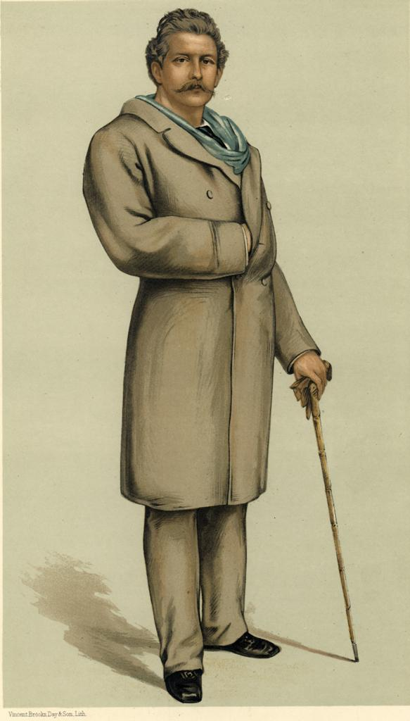 Caricature of Charles Bennett Lawes - “Athlete and Sculptor”.